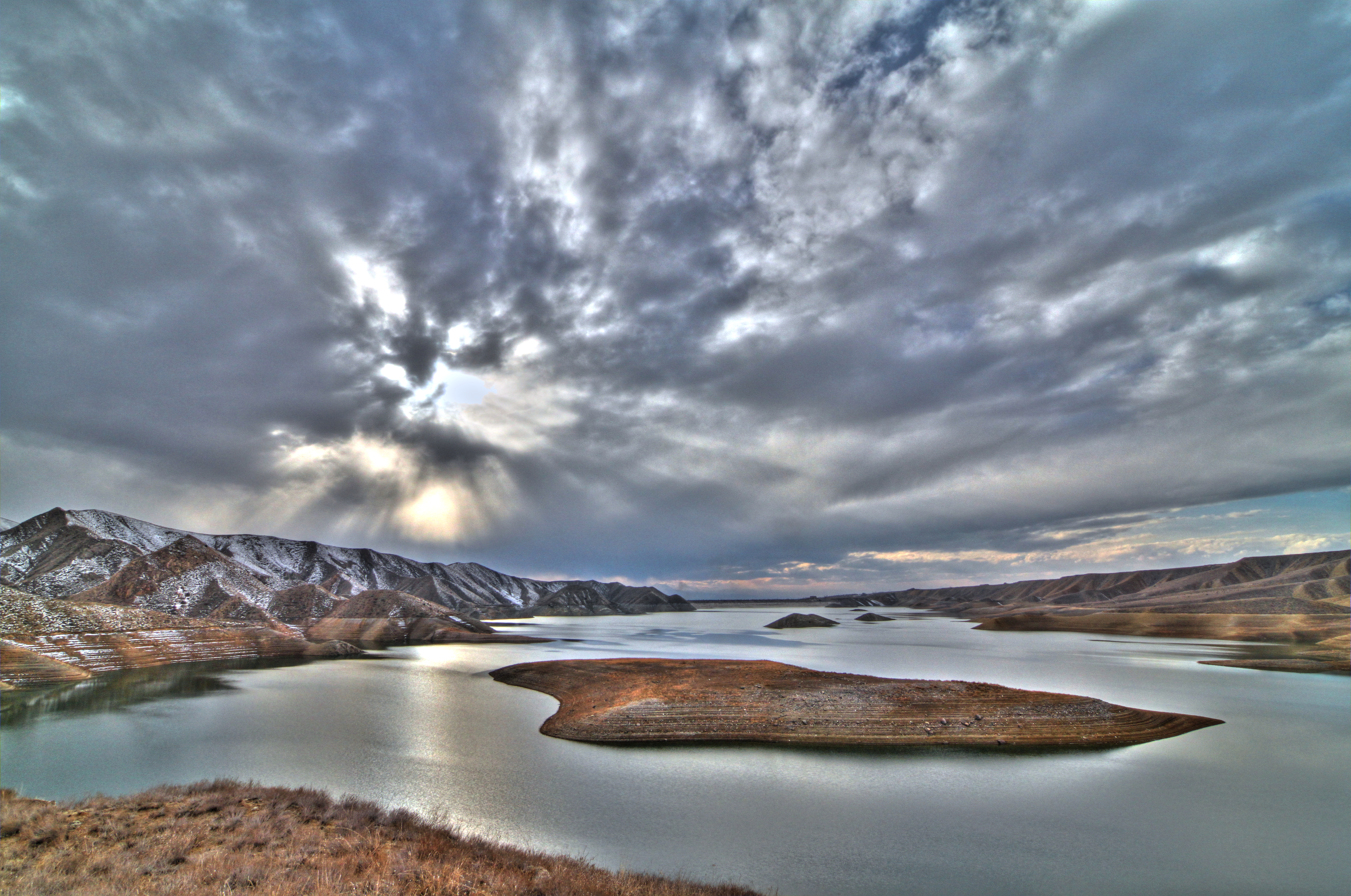 The Azat Reservoir along the Azat River in the Kotayk Province of Armenia.